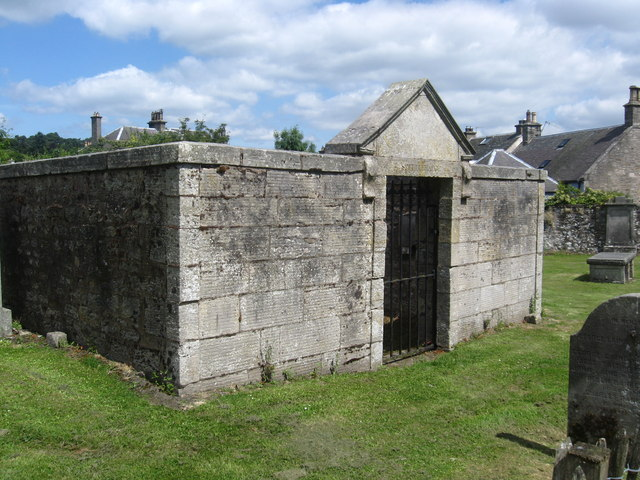 William Fergusson's Burial Place